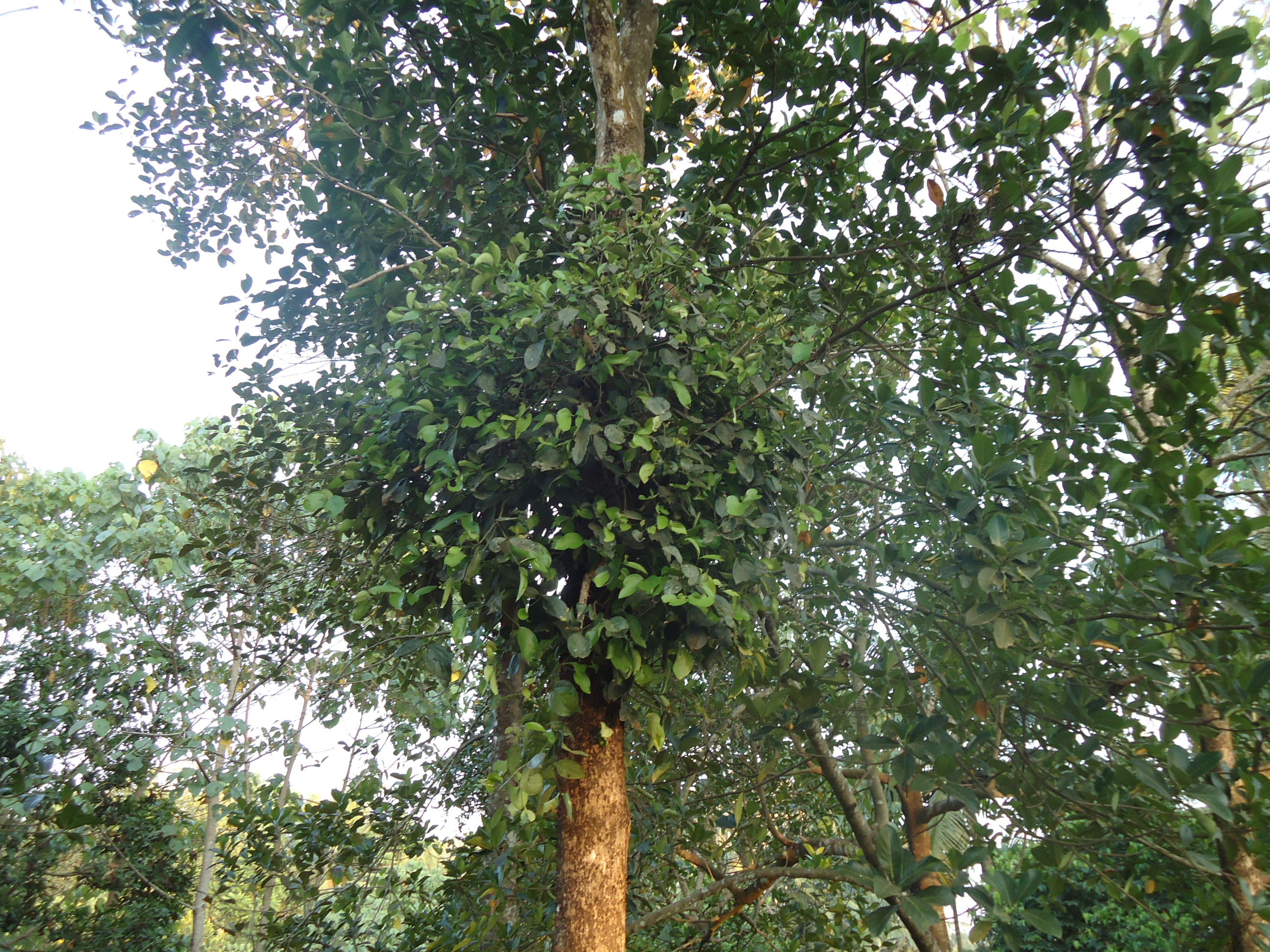 Loranthus_europaeus_on_Tree